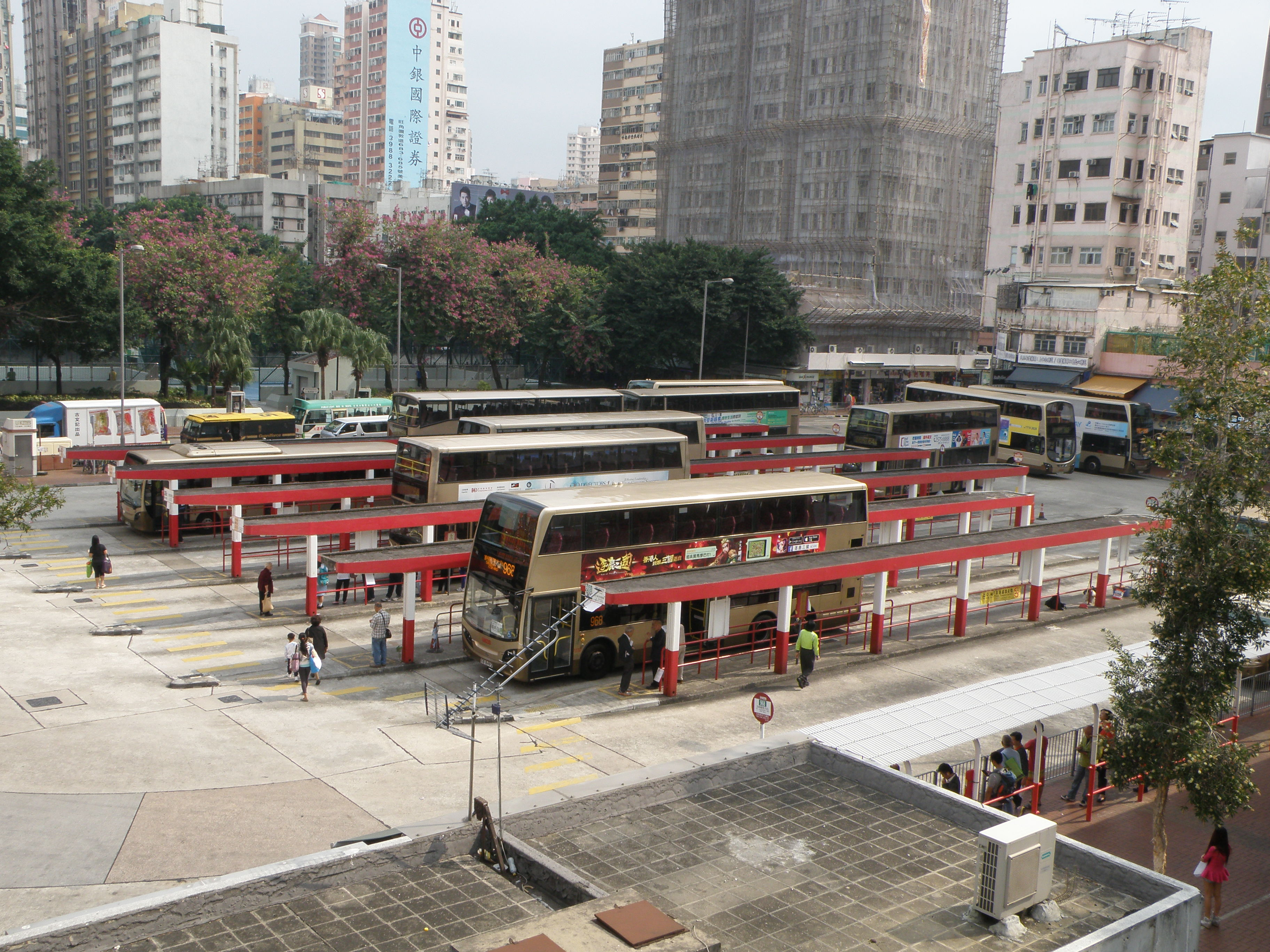 Yuen Long (West) Bus Terminus in Yuen Long, Hong Kong.